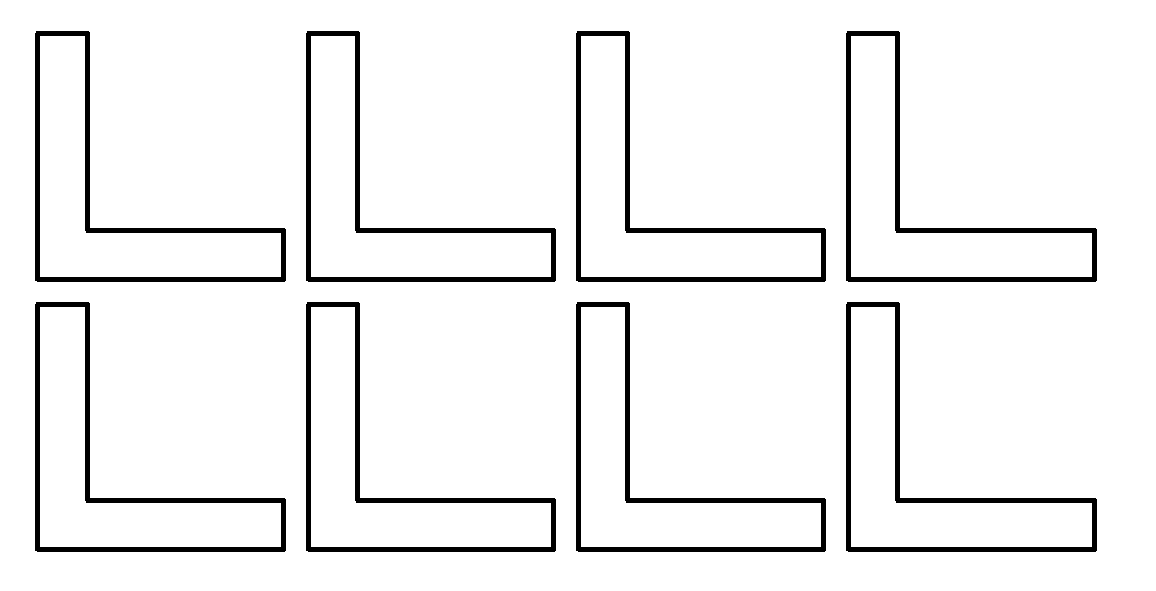 Rectangluar type of Nesting